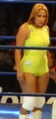 AAA Reina de Reinas Championship Match at Rey de Reyes (2013).